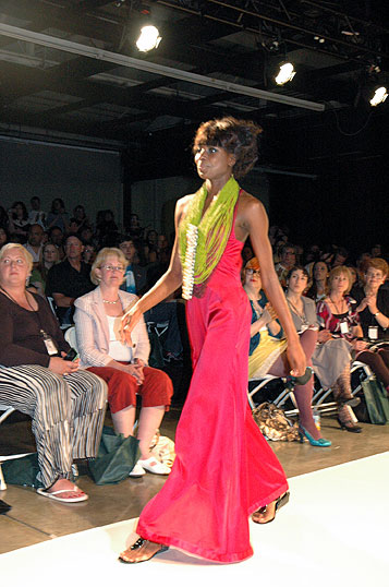 Palazzo leg trousers Art Institute of Portland show 2009